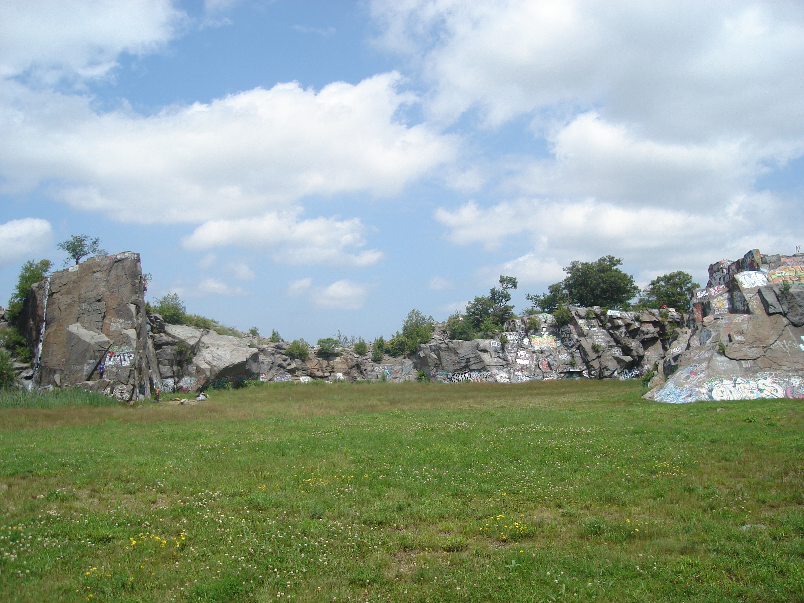 Looking north from the filled quarry at Quincy Quarries Reservation in Quincy, Massachusetts.